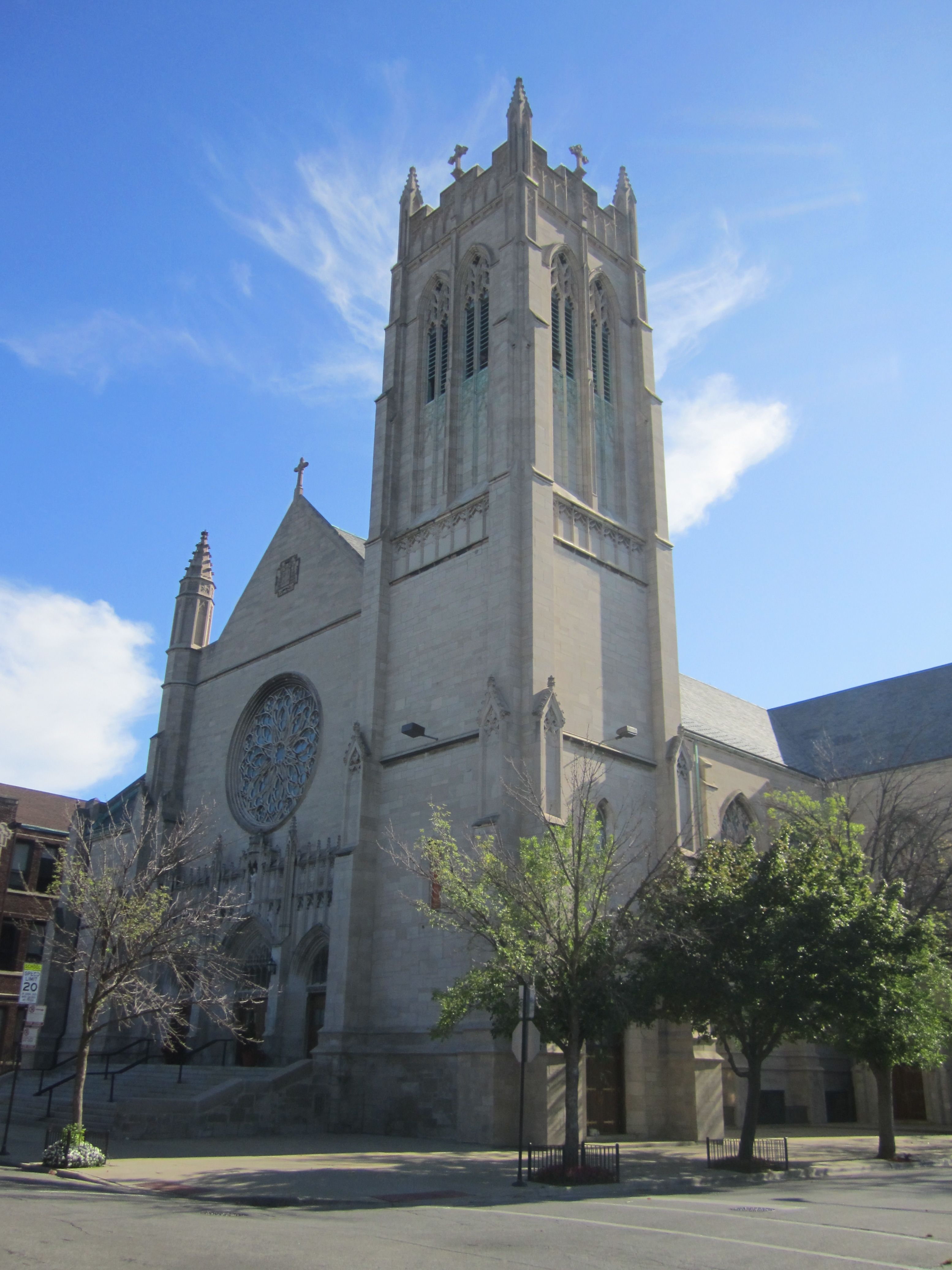 St. Sabina Church in Chicago, Illinois